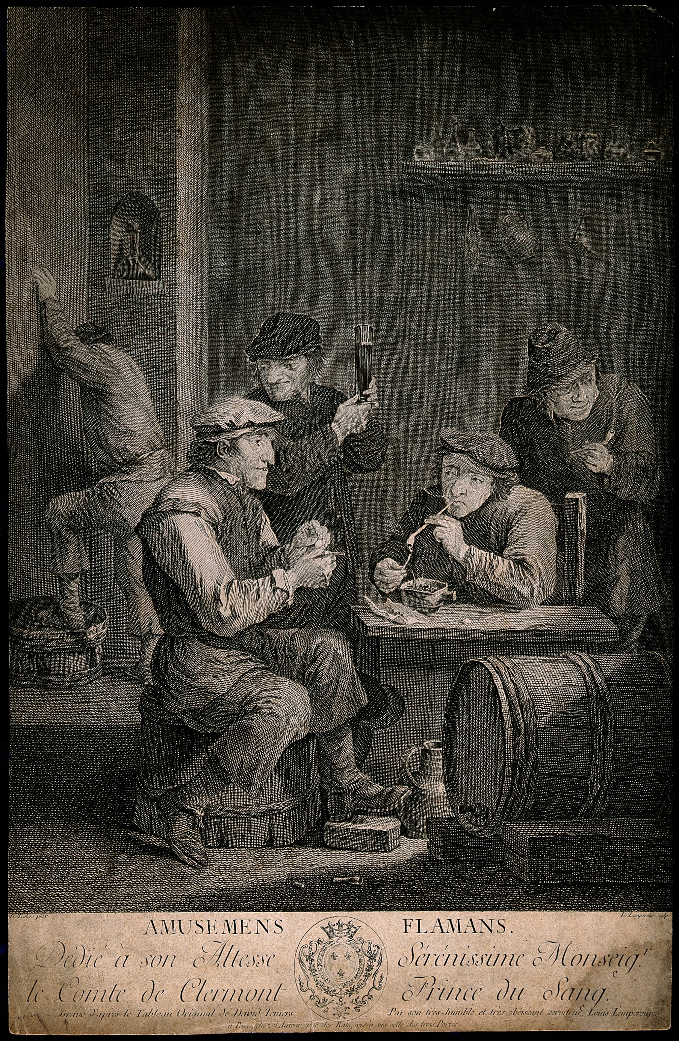 Four Flemish men smoke and drink in a dingy smoke den, a man leans on the wall behind. Engraving by L. Lempereur, late 18th century, after a painting by D. Teniers, the younger. Iconographic Collections Keywords: David Teniers; Louis-Simon Lempereur